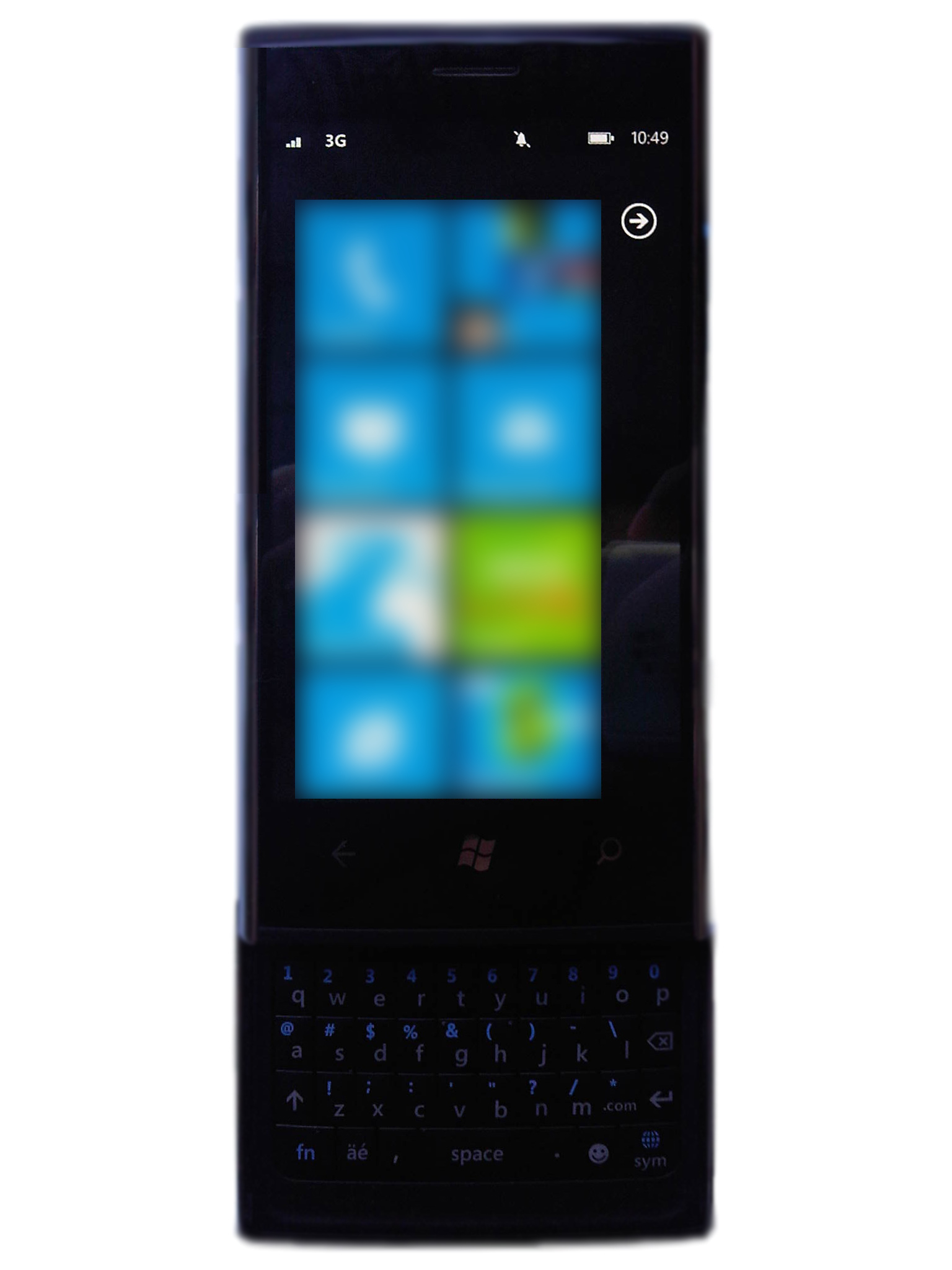 Photo of Dell Venue Pro